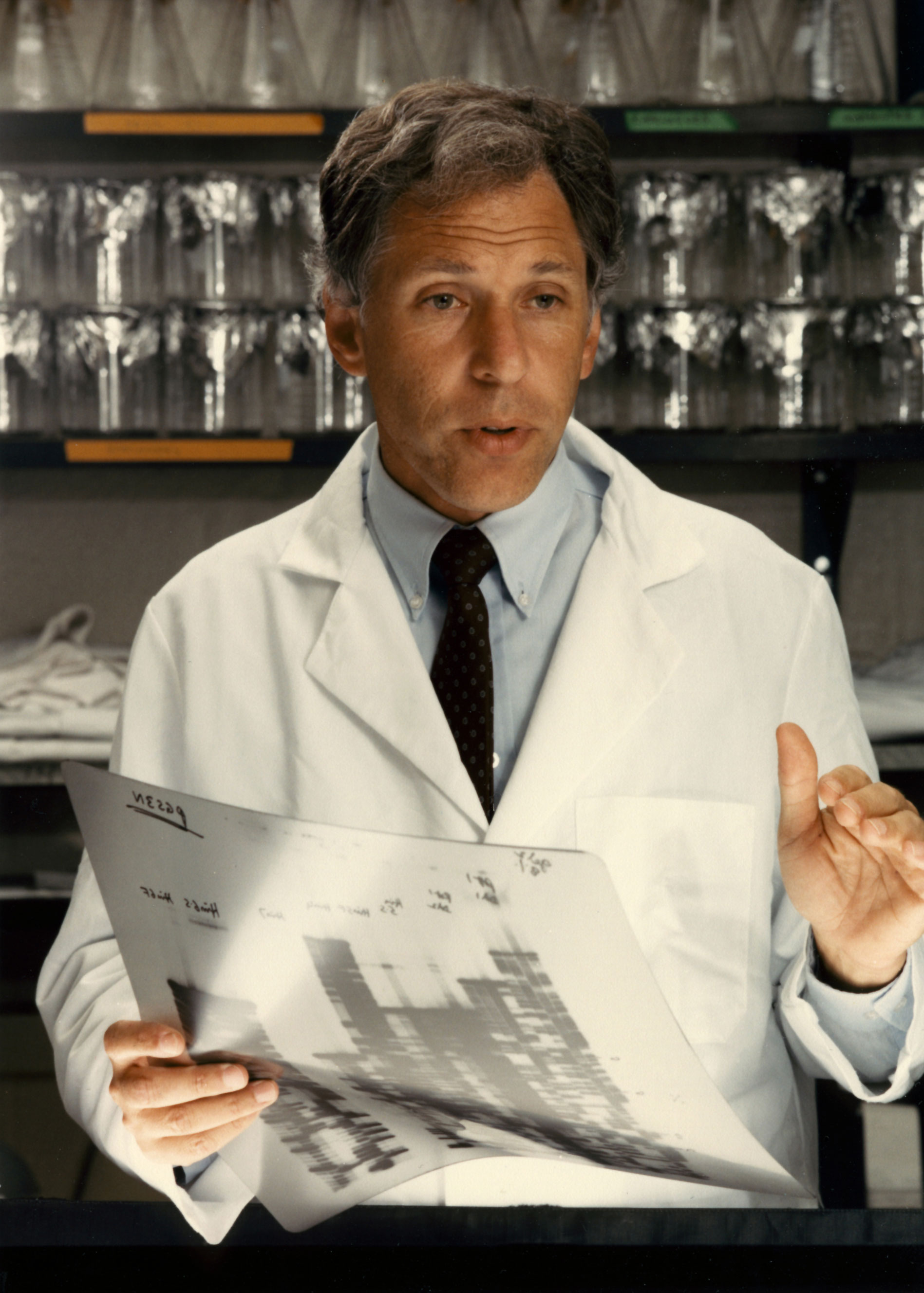 Title: Historical Portrait - Stuart Aaronson Description: Historical Portrait of Dr. Stuart Aaronson who received the 2006 Award for Excellence in Technology Transfer from the Federal Laboratory Consortium for Technology Transfer (FLC); Dr. Aaronson attended the Mount Sinai School of Medicine. Subjects (names): Aaronson, Stuart Topics/Categories: Historical -- People People -- Professional Type: Color Source: Unknown Author: Unknown Date Created: Unknown Date Added: 2/26/2010 Reuse Restrictions: None - This image is in the public domain and can be freely reused. Please credit the source and/or author listed above.